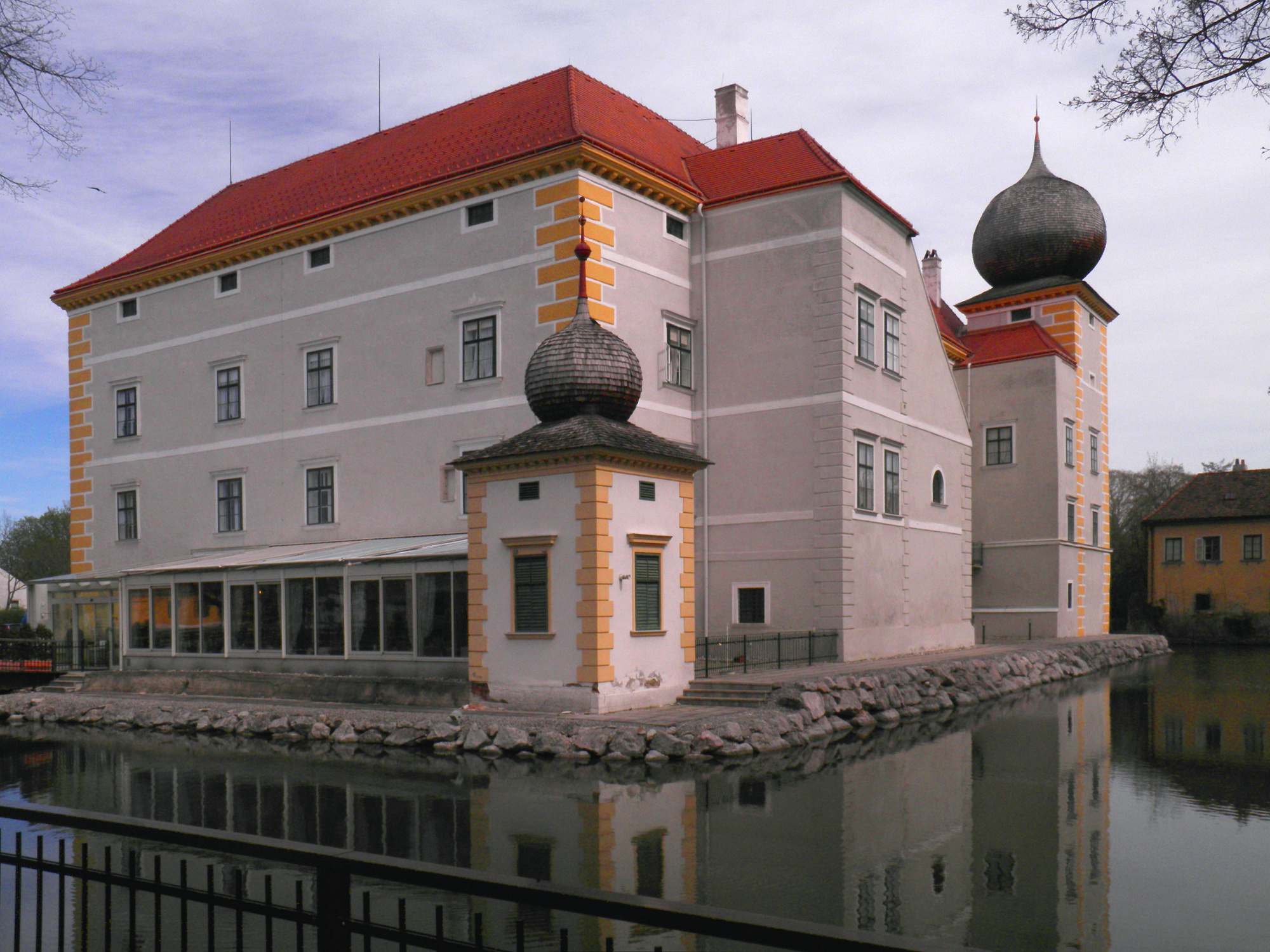 Kottingbrunn - moated castle